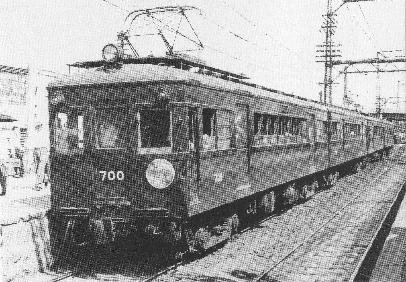 Hankyu Railway #700 (800).